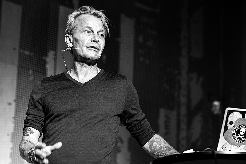 Jan Grarup in Aarhus talking on his book "And Then There Was Silence" (2017)